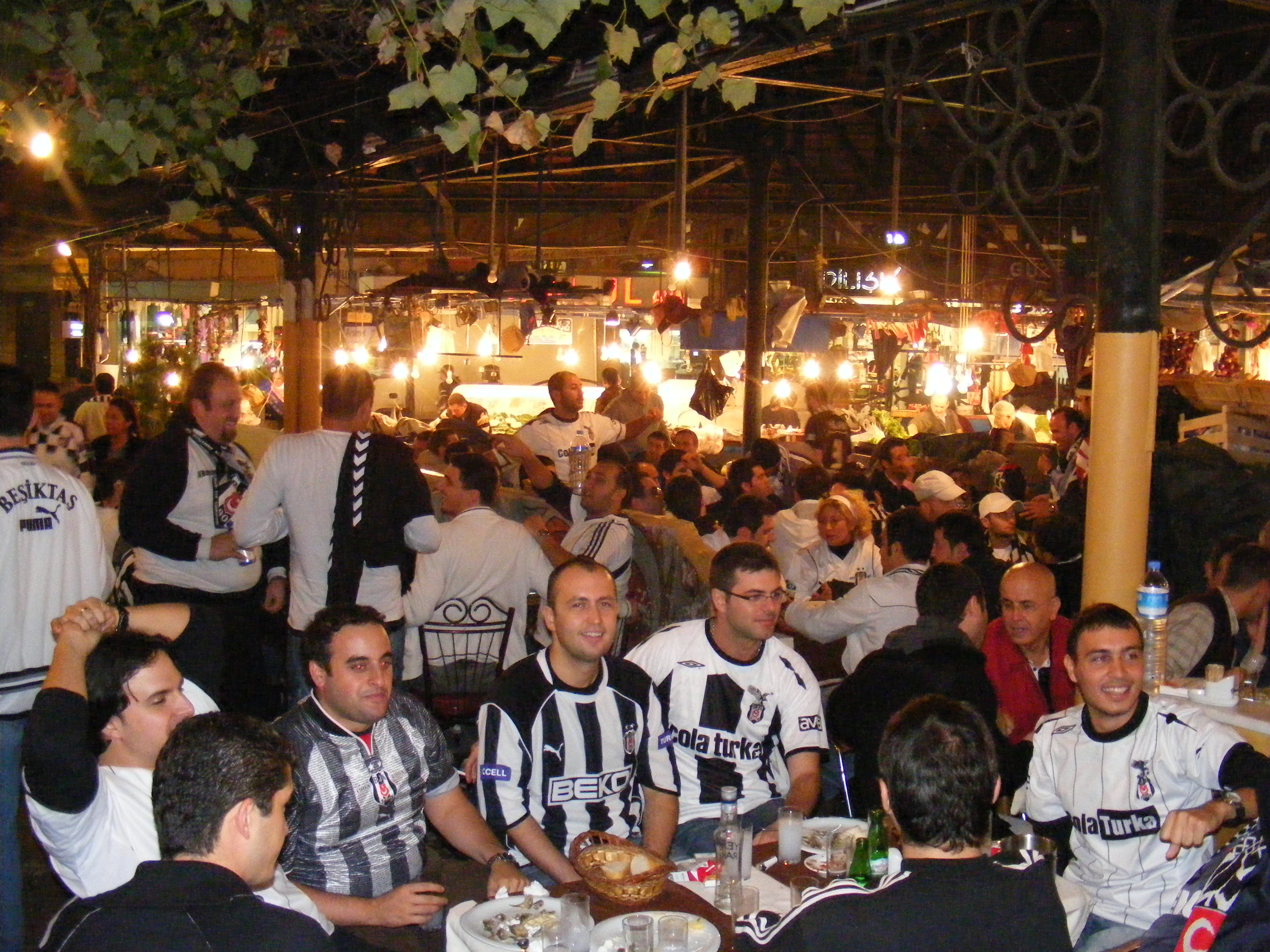 Bjk Supporters warming up for upcoming match